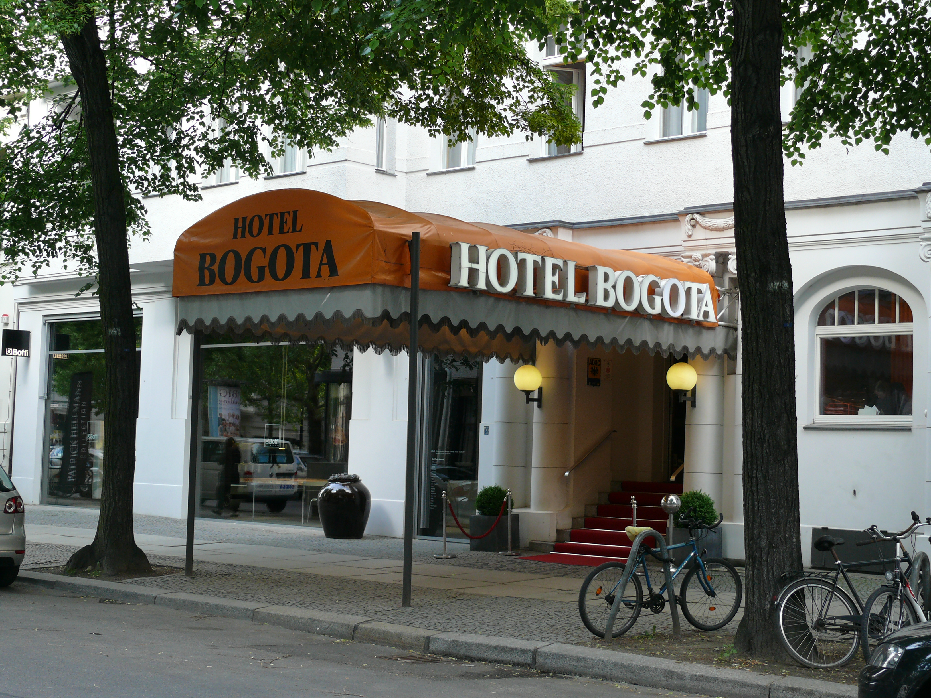 Berlin-Charlottenburg Schlüterstraße Hotel Bogota